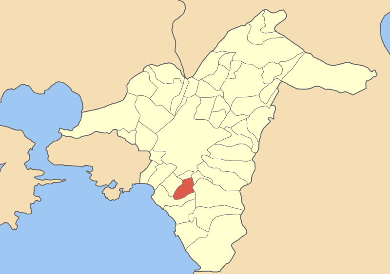 Locator map of Agios Dimitrios municipality (Δήμος Αγίου Δημητρίου) in Athina Nomarchia (Νομαρχία Αθηνών) in Greece.